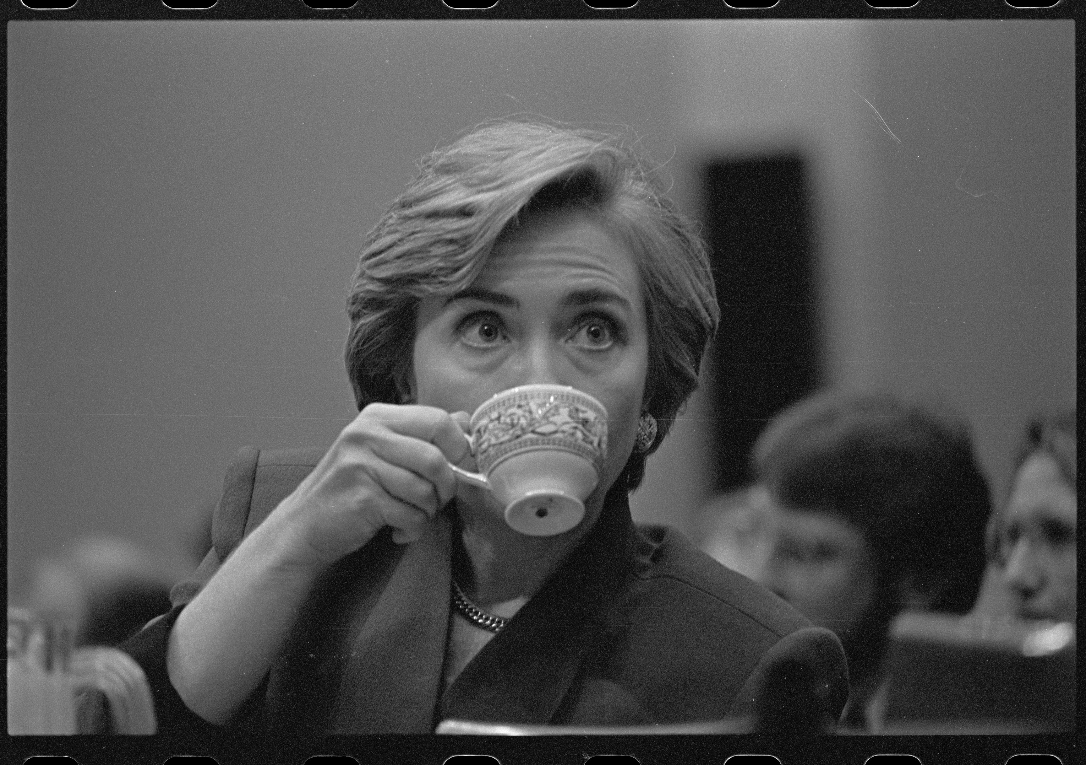 First Lady Hillary Clinton, head-and-shoulders portrait, sipping from a teacup during her presentation on health care